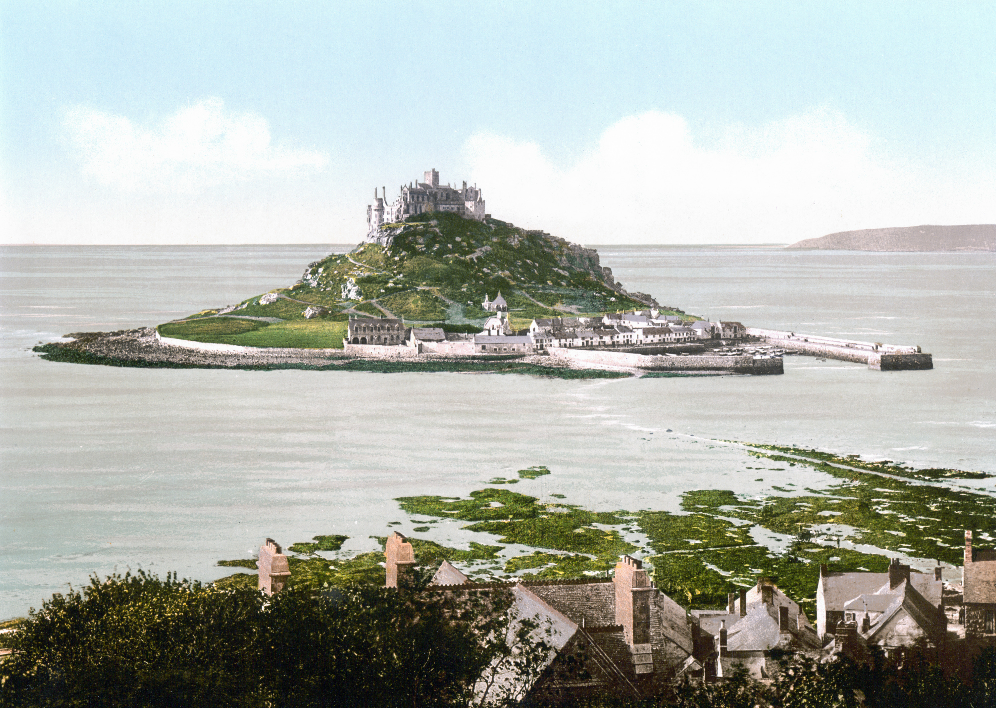 Saint Michael's Mount in Cornwall, United Kingdom